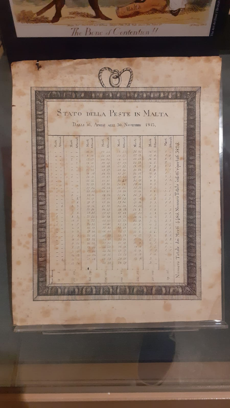 1813–1814 Malta plague epidemic